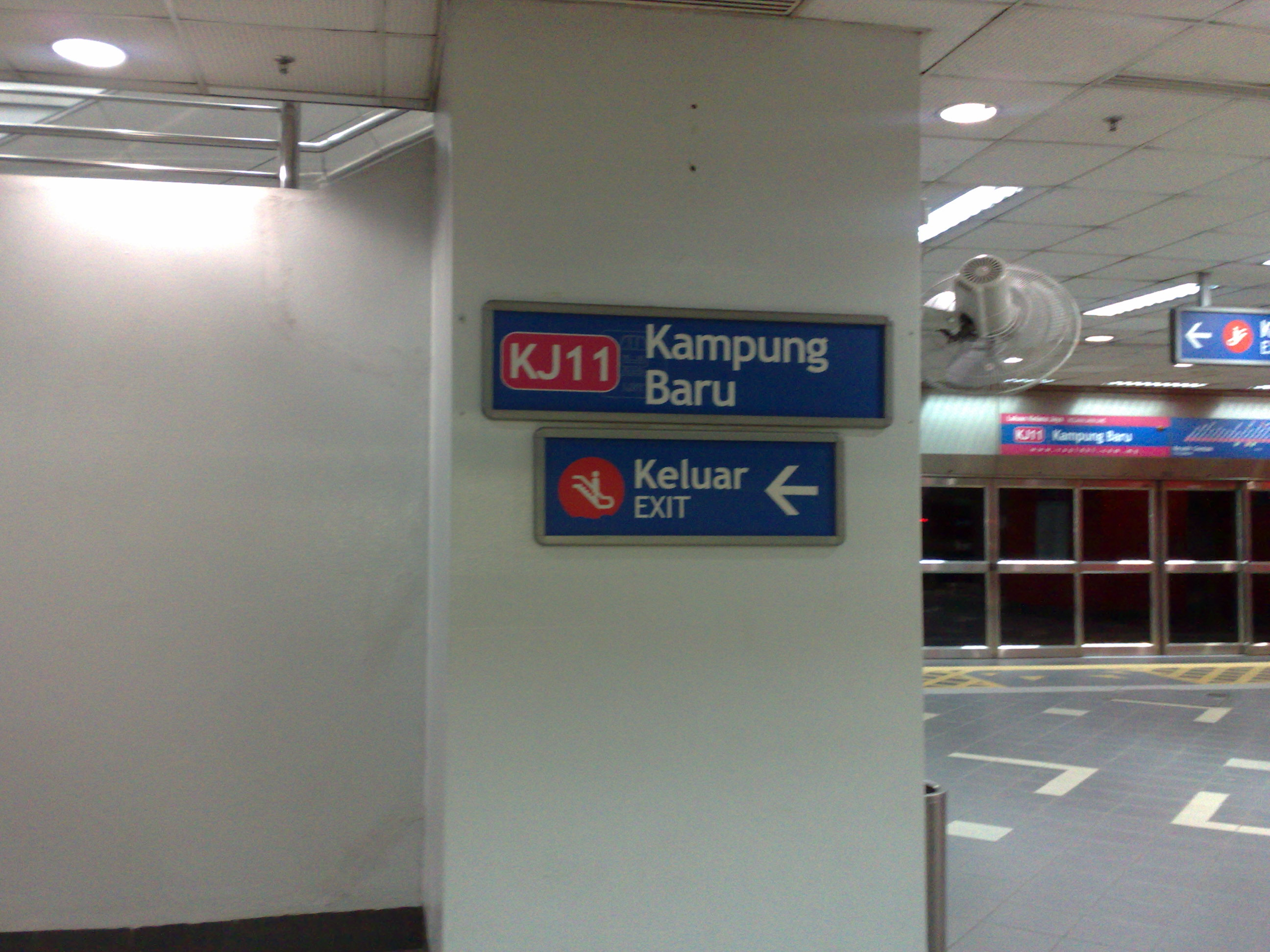 Kampung Baru LRT